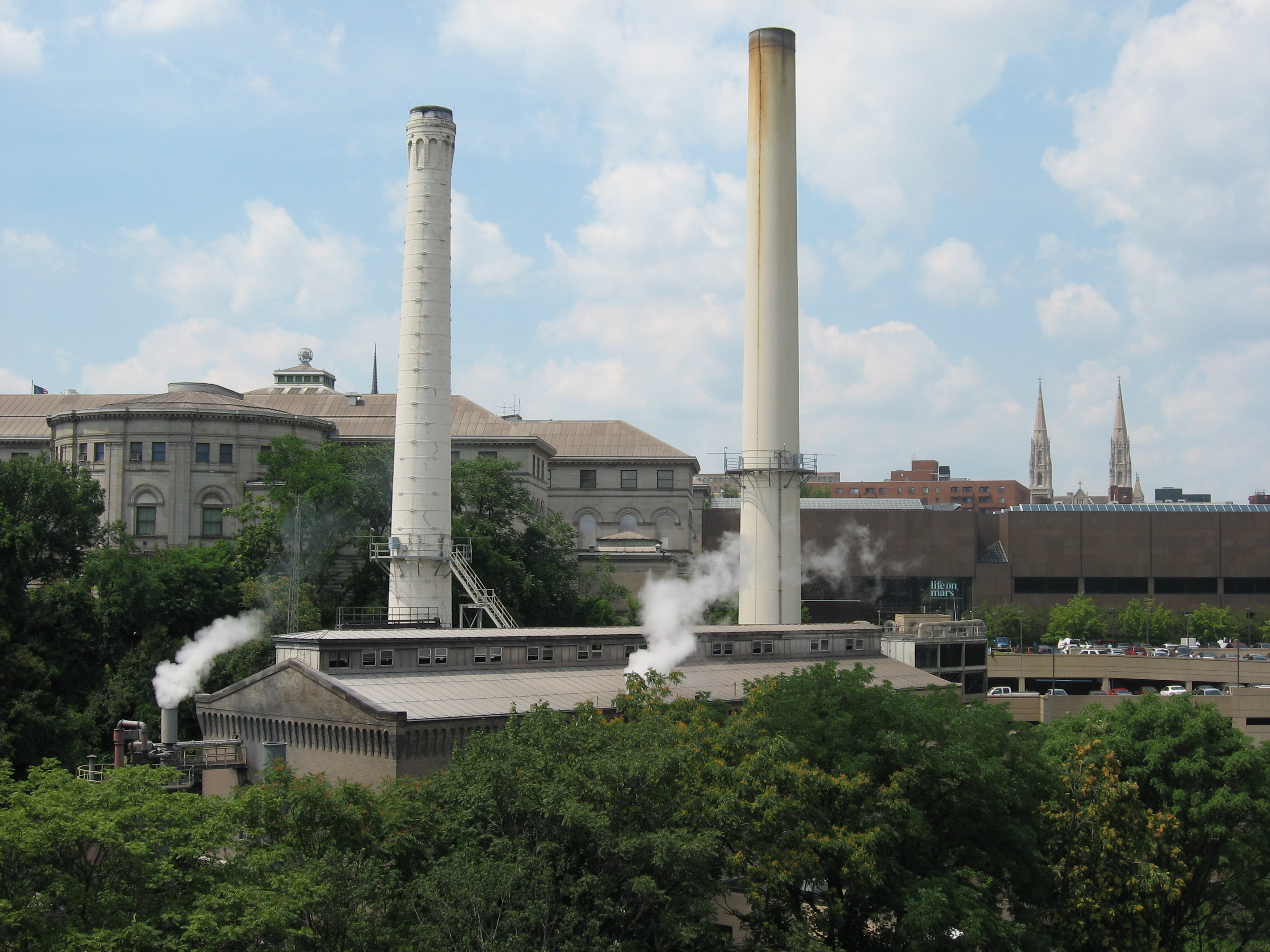 The Bellefield Boiler Plant (aka the Cloud Factory) in the Junction Hollow of Schenley Park. Photo taken from the Schenley Bridge. The Carnegie Library is visible in the background.40°26′31.3″N 79°56′56.8″W / 40.442028°N 79.949111°W